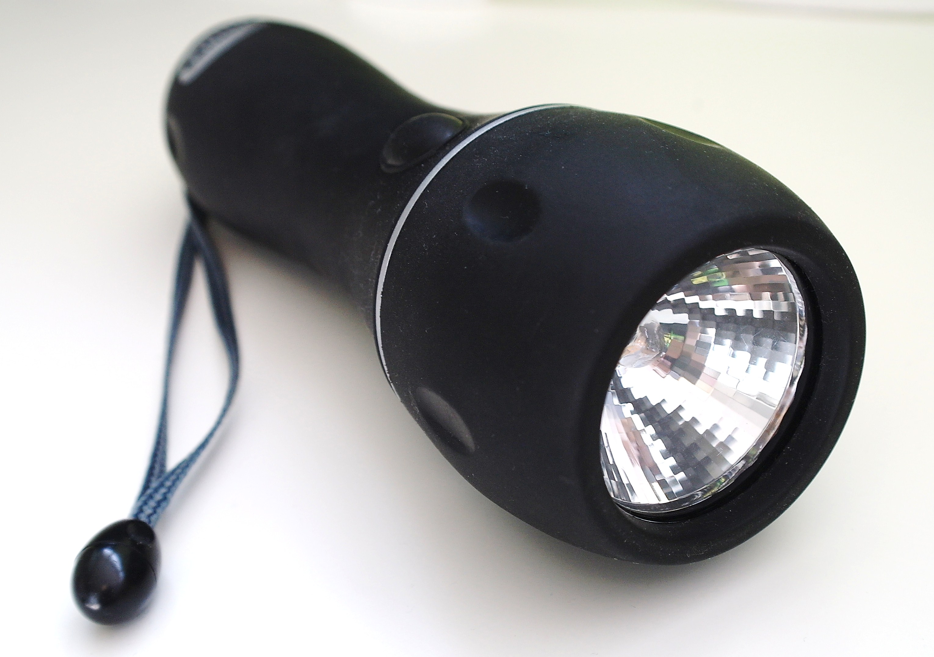 Modern version